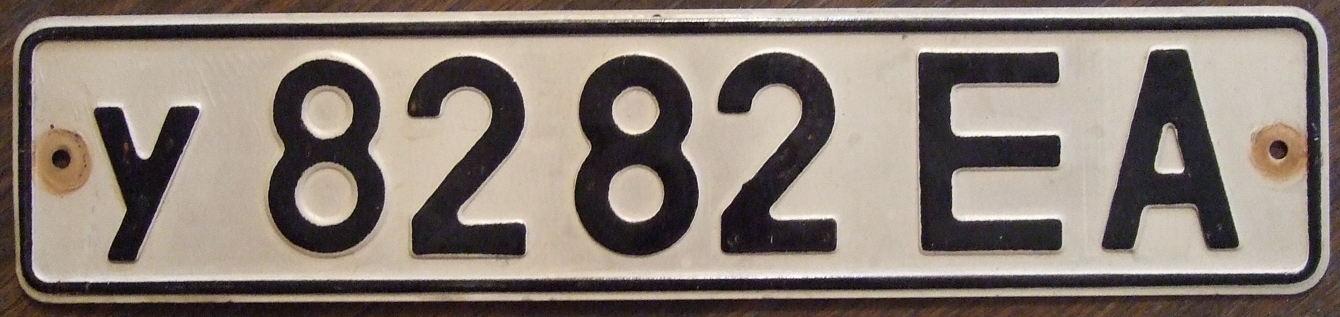 Most Soviet plates were not reflective.